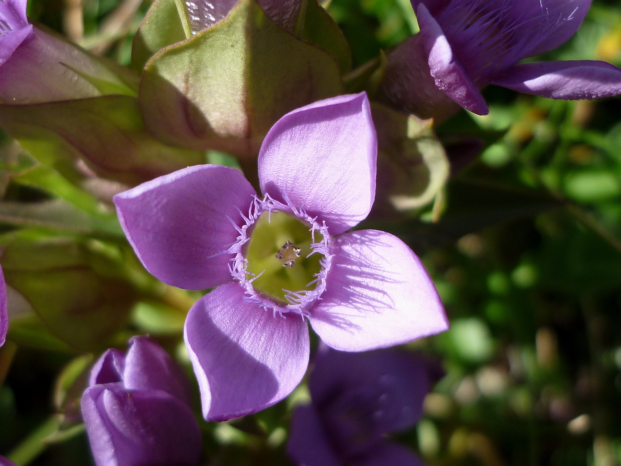 Gentiana campestris. Near the Estany Gento (Pallars Jussà - Catalunya. To 2.150 m altitude